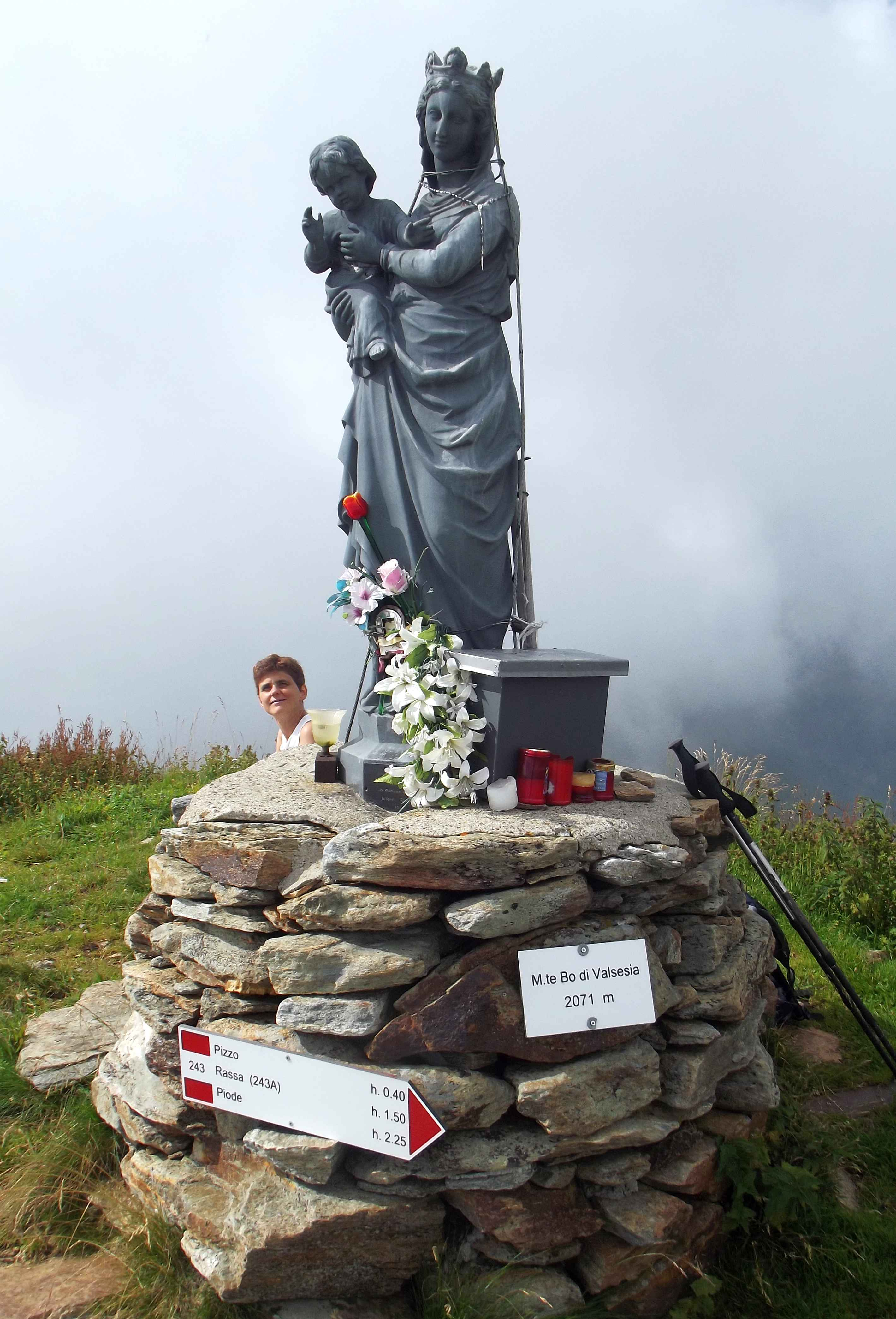 Mount Bo di Valsesia (Alpi Biellesi, Italy): the statue on the summit